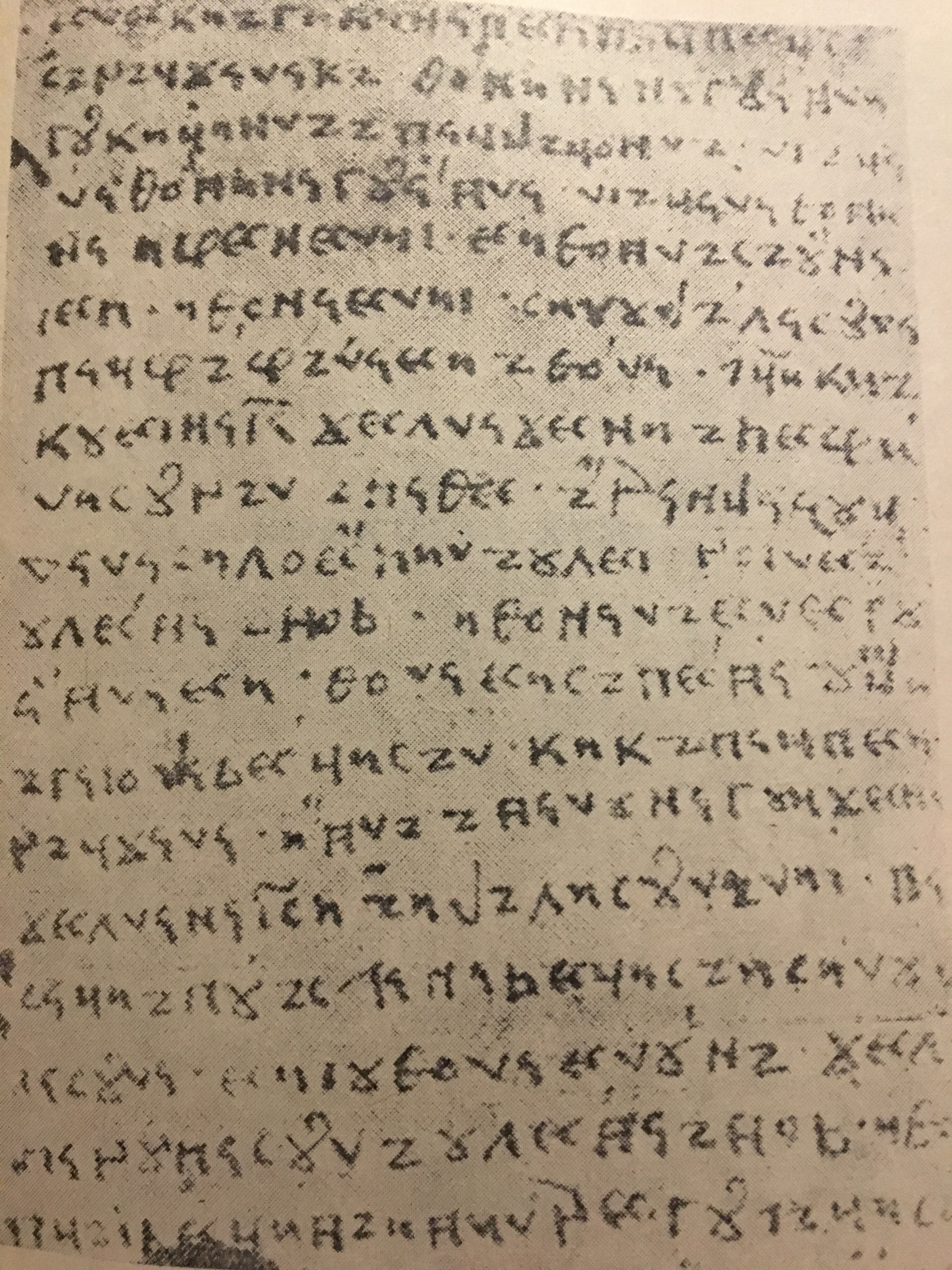 Page from the Elbasan Gospel Manuscript, 17th century